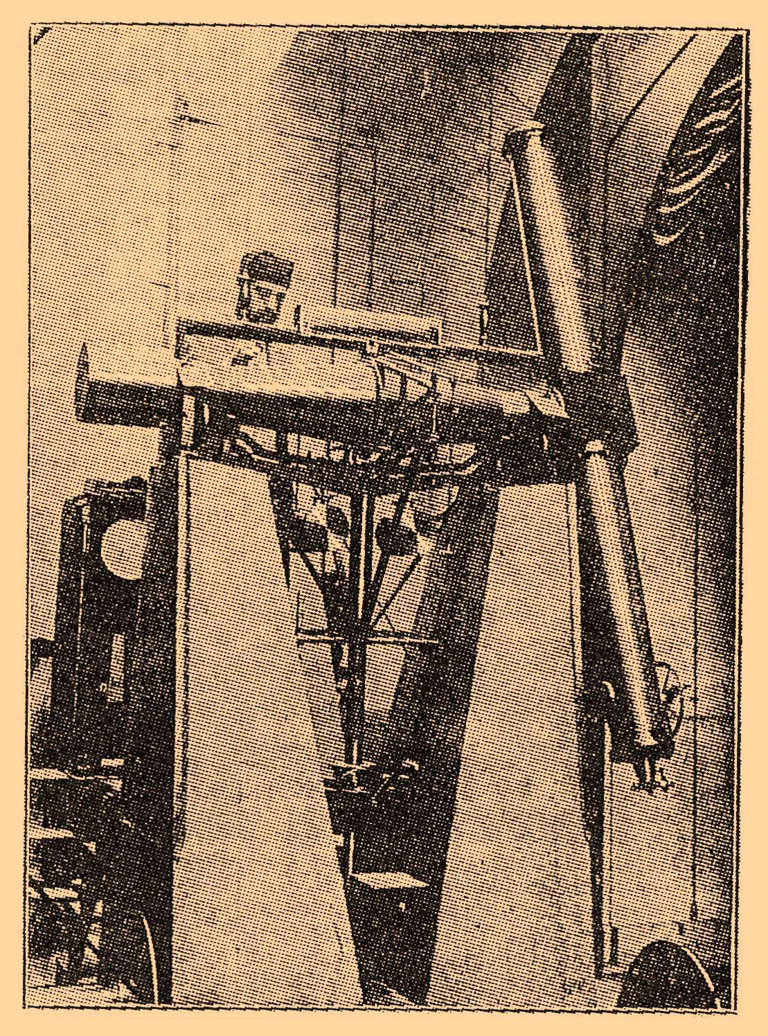 Illustration from Brockhaus and Efron Encyclopedic Dictionary (1890—1907)